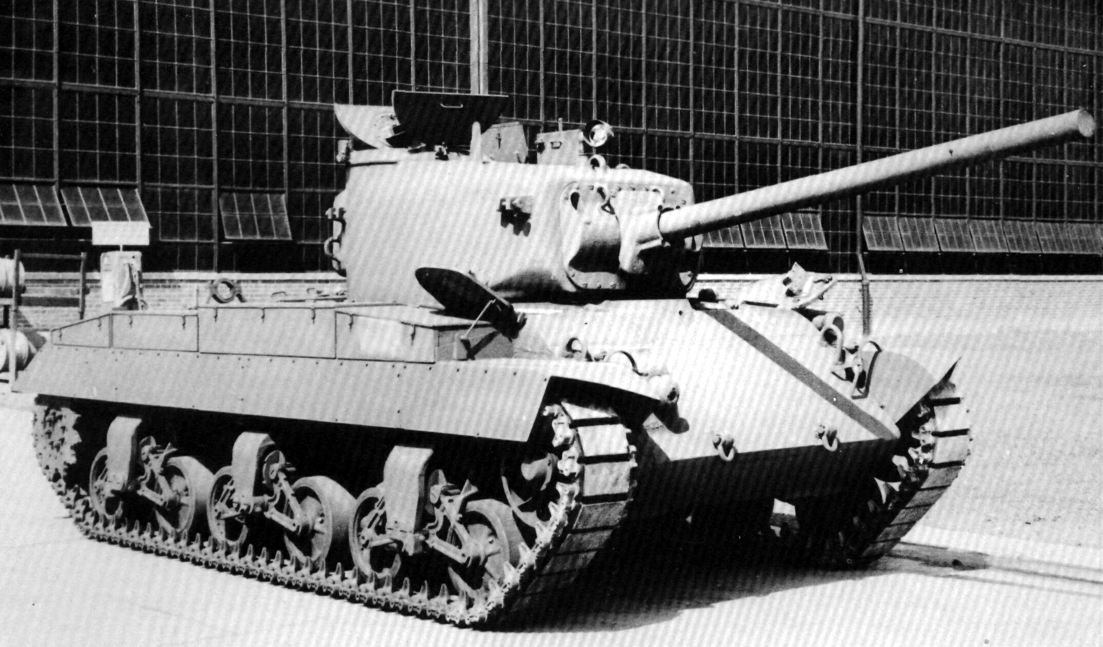 T20 medium tank, Pilot #1, after completion at the Fisher Body Division of General Motors